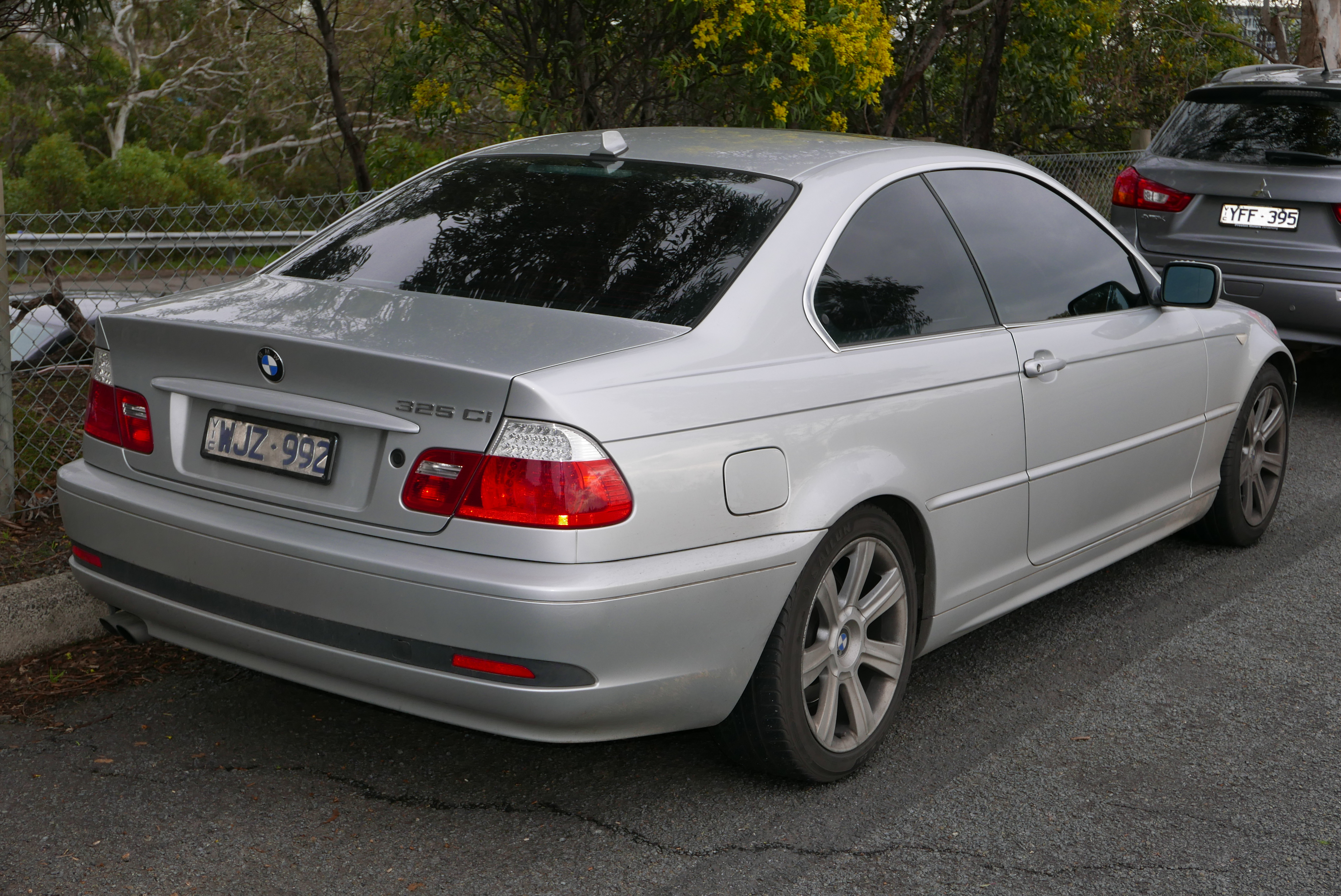 2004 BMW 325Ci (E46 MY04) coupe. Photographed in Kew, Victoria, Australia. Vehicle registration enquiry resultsJurisdictionVictoriaRegistrationWJZ992Chassis codeWBABD32060PL86410Engine code30435558Compliance date2004-05Year of manufacture2004